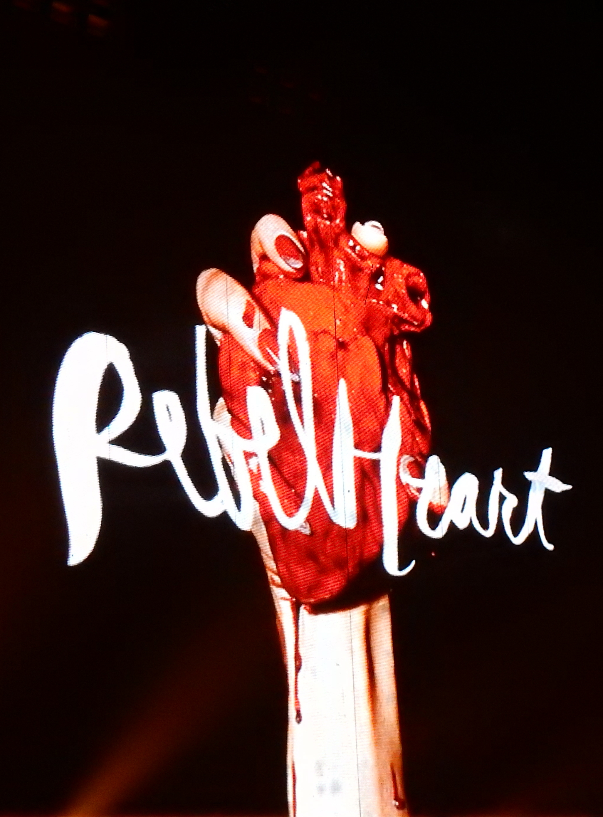 Madonna - Rebel Heart Tour 2015 - Montreal Opening night